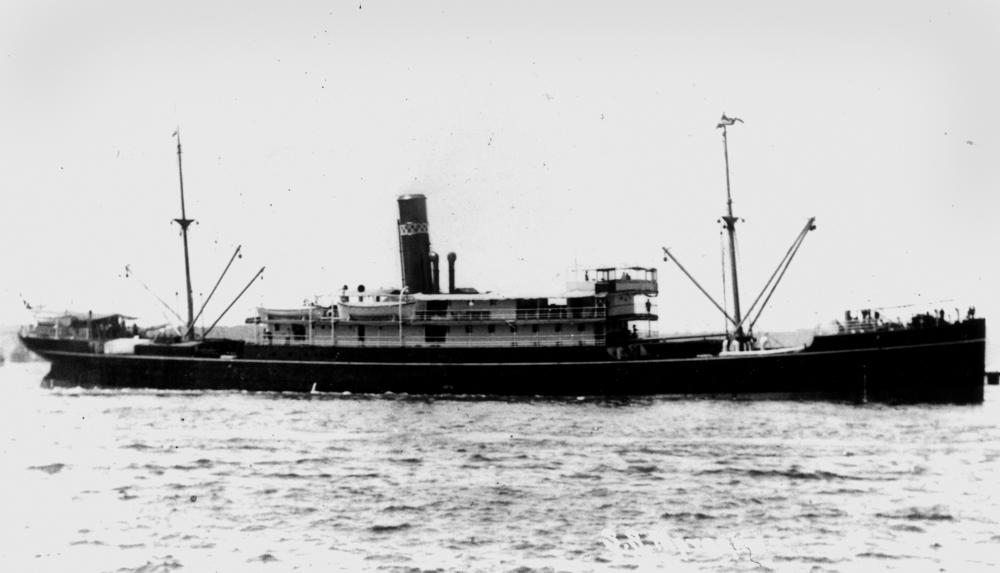 3,331 GRT passenger steamship Mataram, built in 1909 by Clyde Ship Building & Engineering Co of Port Glasgow for Burns, Philp & Co, who registered her in Sydney. In 1935 Chinese owners bought her, renamed her Kwan Ho and registered her in Tsingtao. In 1938 in the Sino-Japanese War she came under the control of Nippon Kogyo Kisan KK, who renamed her Kowa Maru and registered her in Tokyo. The submarine USS Wahoo torpedoed and sank her south of Dairen in 1943.